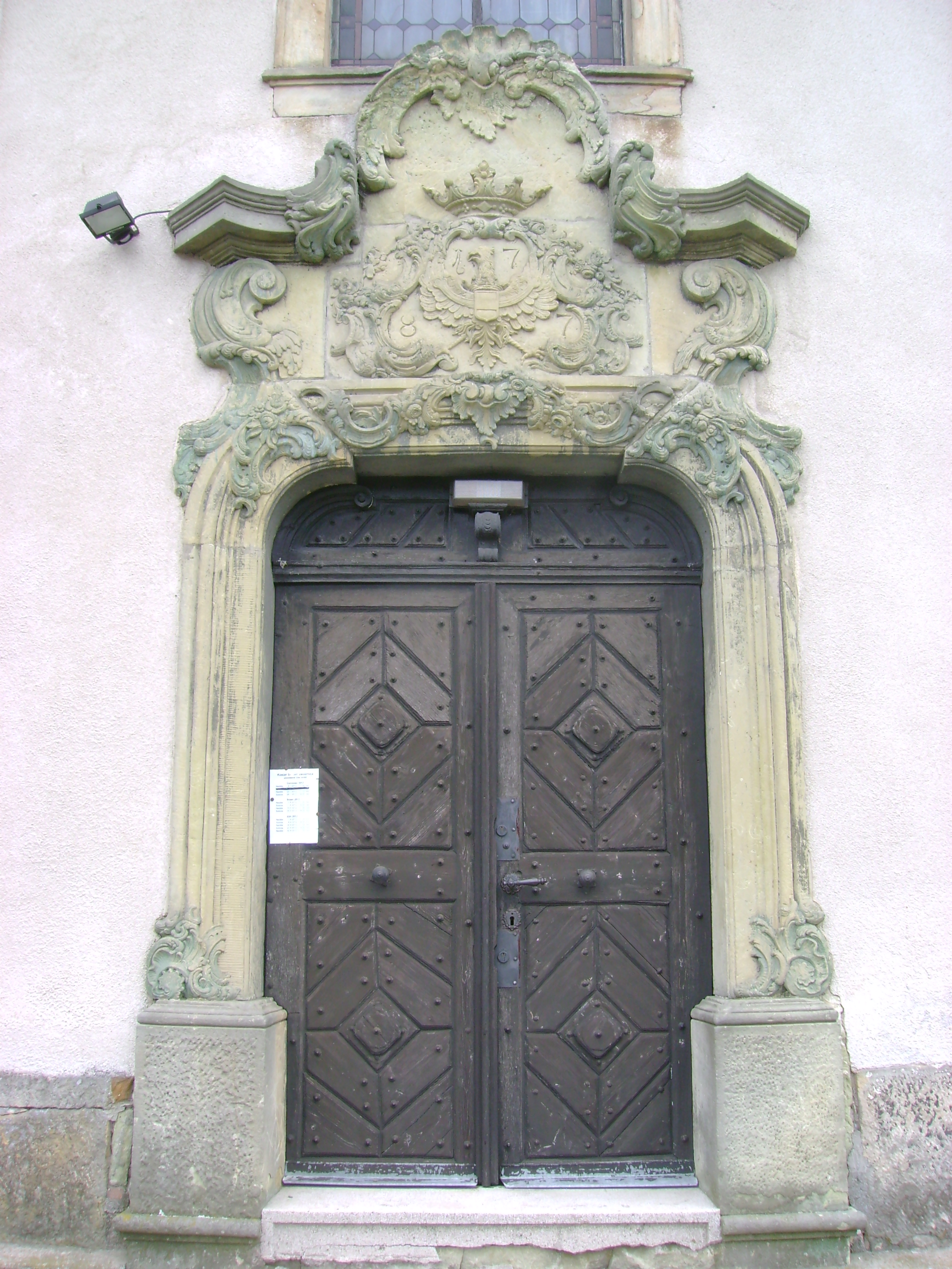 Church of Saint George in Javornice, Rychnov nad Kněžnou District, the Czech Republic. Česky: Kostel svatého Jiří v Javornici, okres Rychnov nad Kněžnou. – Portál v jihozápadním průčelí kostela.